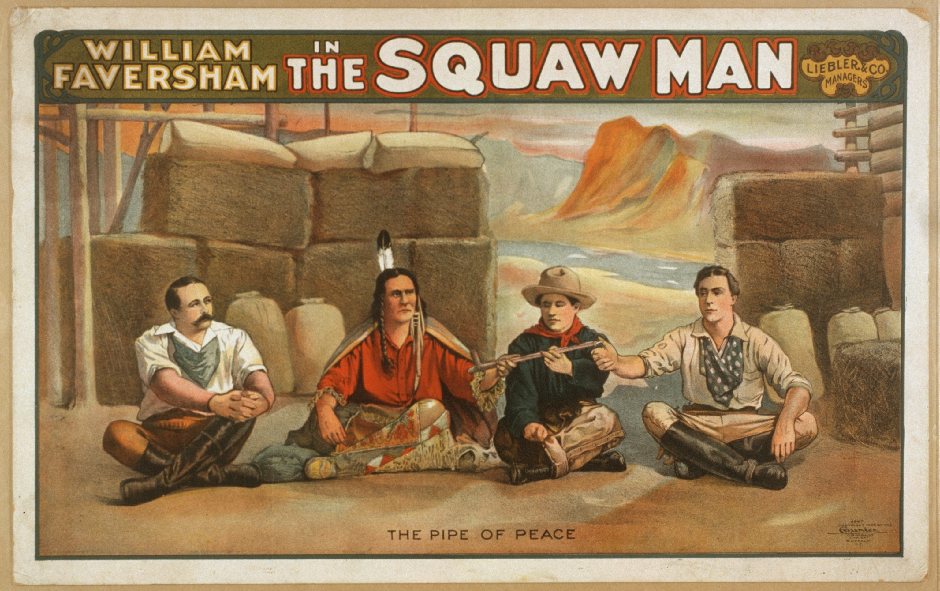 Title: William Faversham in The squaw man Abstract: 1 print : color lithograph ; sheet 35 x 55 cm. (poster format)